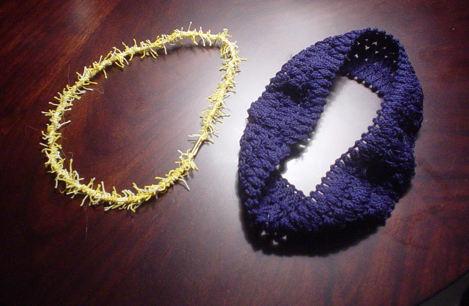 Took picture myself for the article. Will